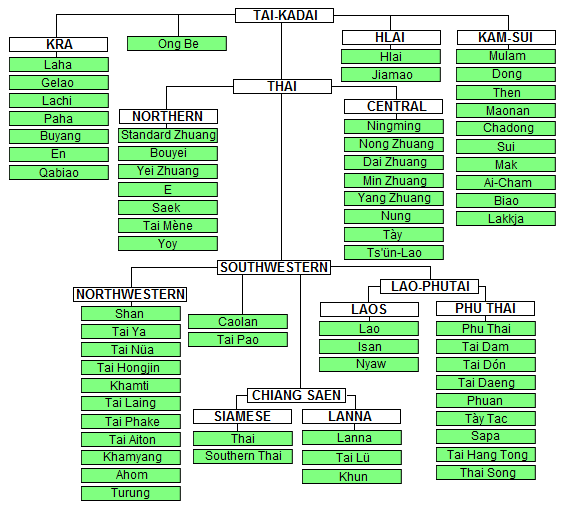 phylogenic tree of Tai-Kadai Languages